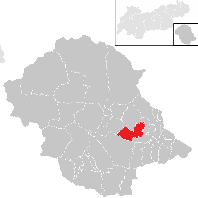 District Lienz